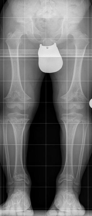 X-ray 10y old male with Achondroplasia